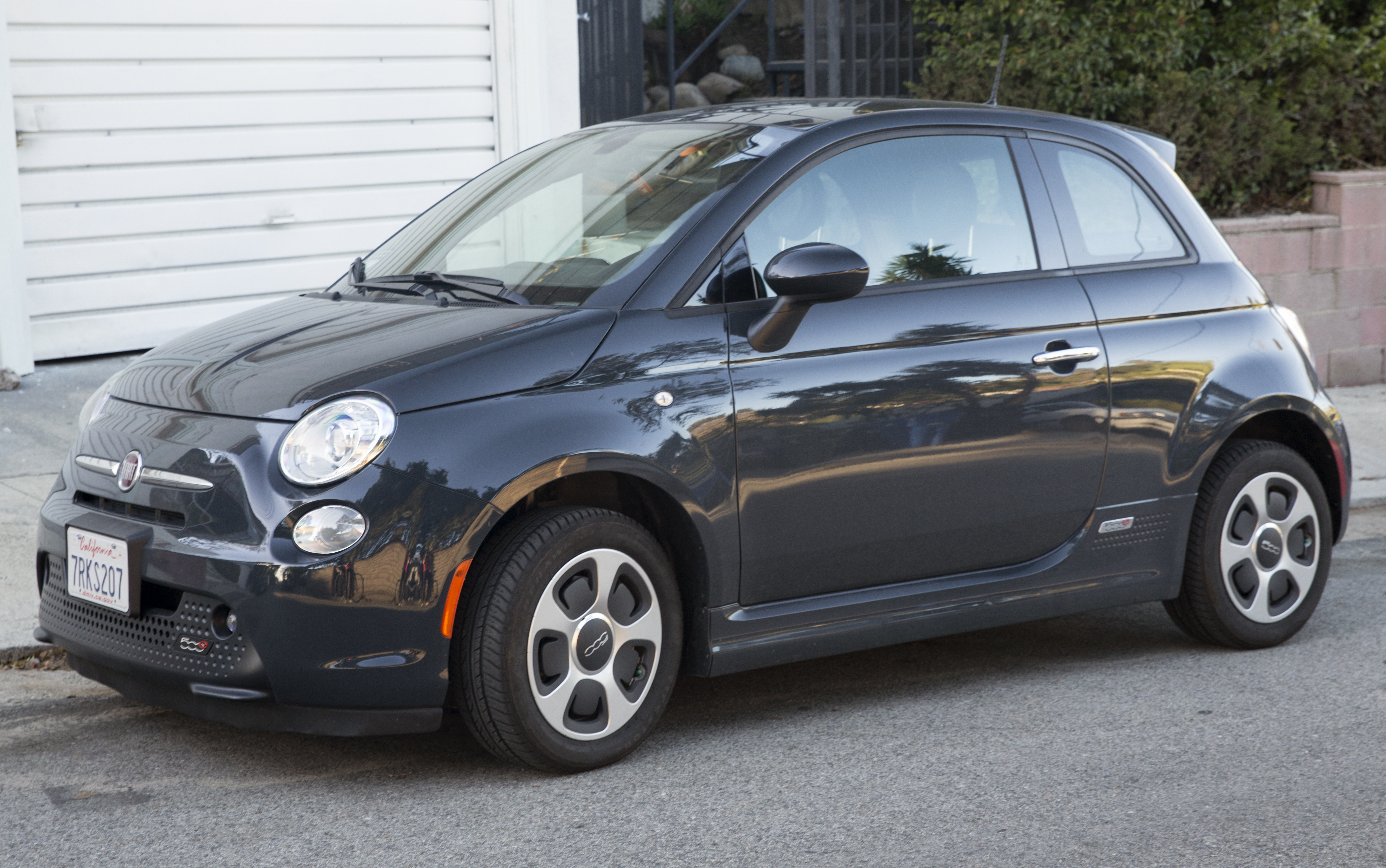 A 2016 Fiat 500e in Silver Lake, Los Angeles, CA.